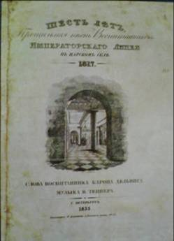 Printed music sheet of the 'Six Years. The Farewell Song of the Furst Students of the Imperial Lycee in Tsarskoe Selo.' 1835.